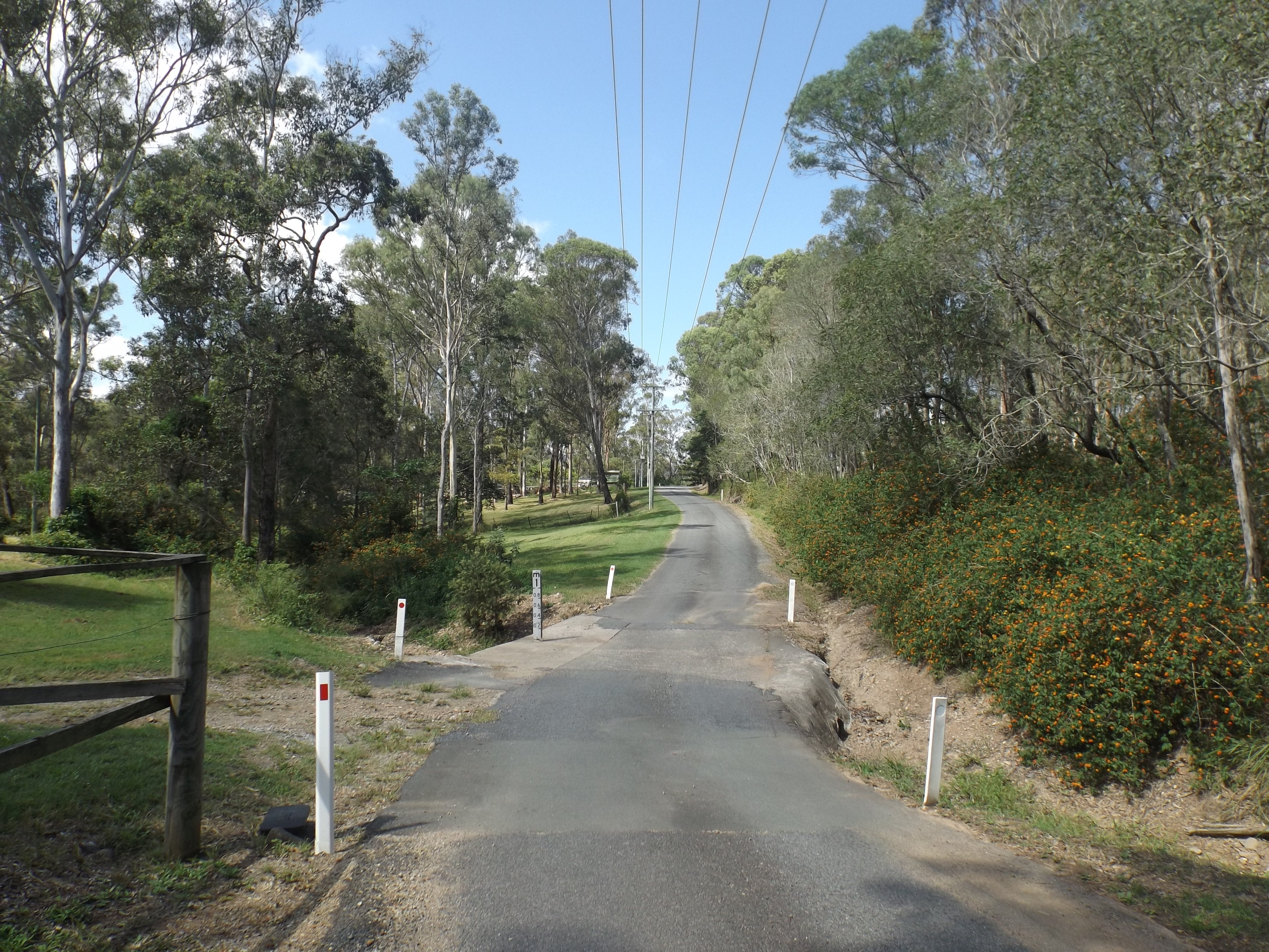 Photo of Wickham Road at Wolffdene, City of Logan, Queensland, Australia.